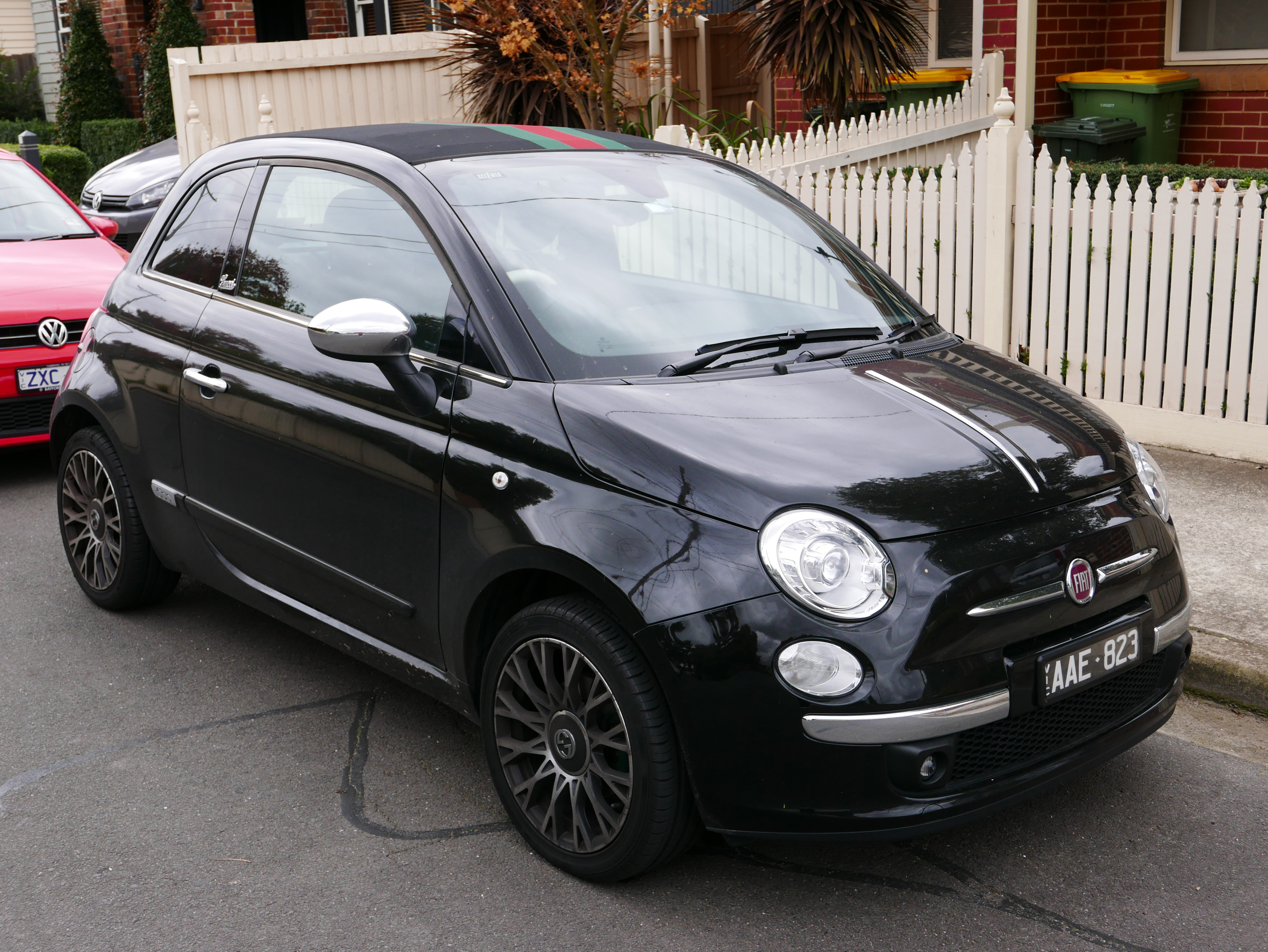 2013 Fiat 500C by Gucci convertible. Photographed in Northcote, Victoria, Australia. Vehicle registration enquiry results Jurisdiction Victoria Registration AAE823 Chassis code ZFA3120000J005516 Engine code 169A30001807822 Compliance date 2013-07 Year of manufacture 2013